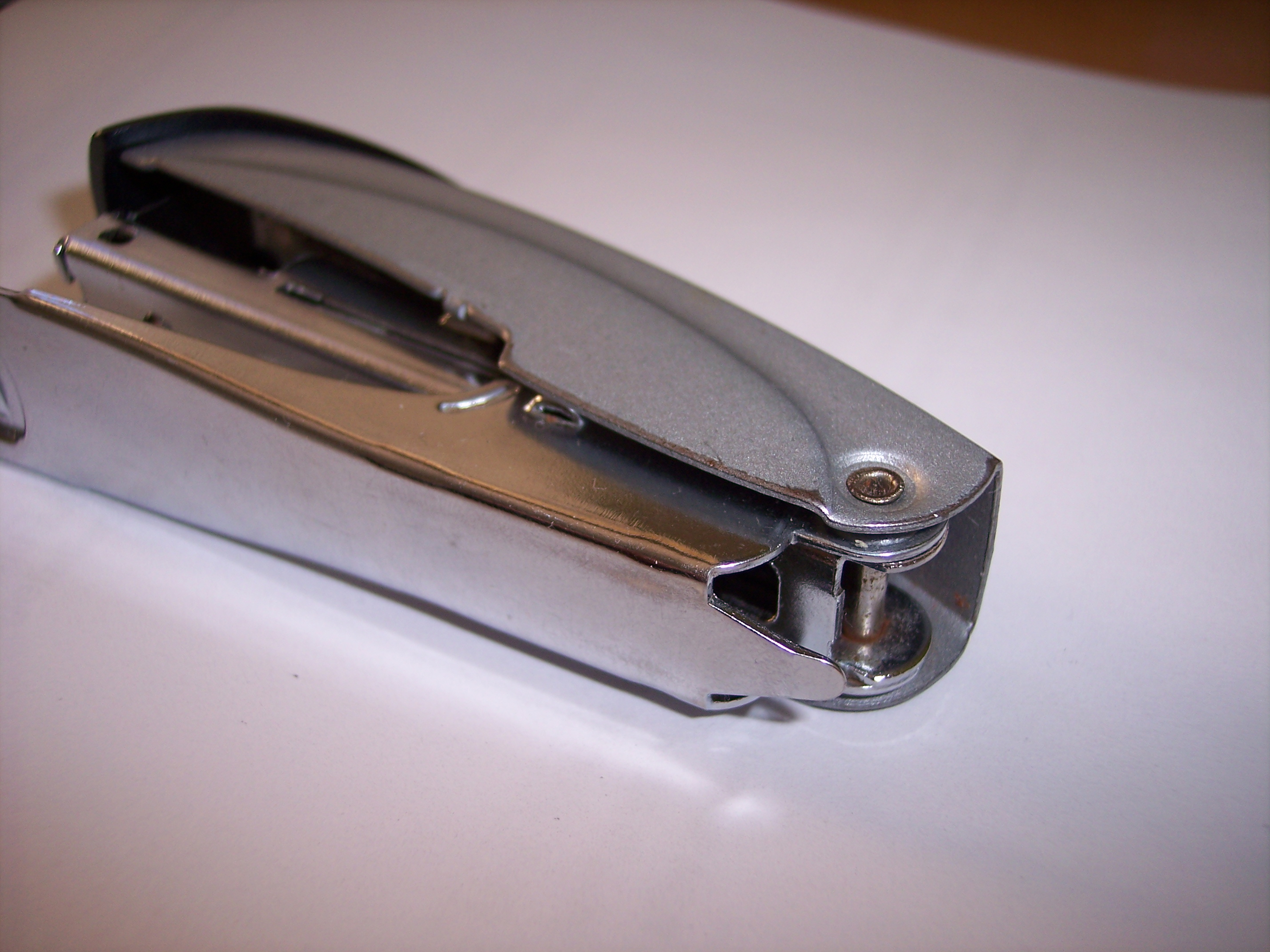 Stapler Grapadora